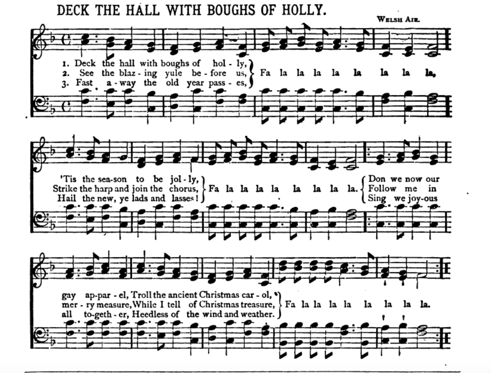 A republication of "Deck the Hall" dating from 1877. The original was published in 1862